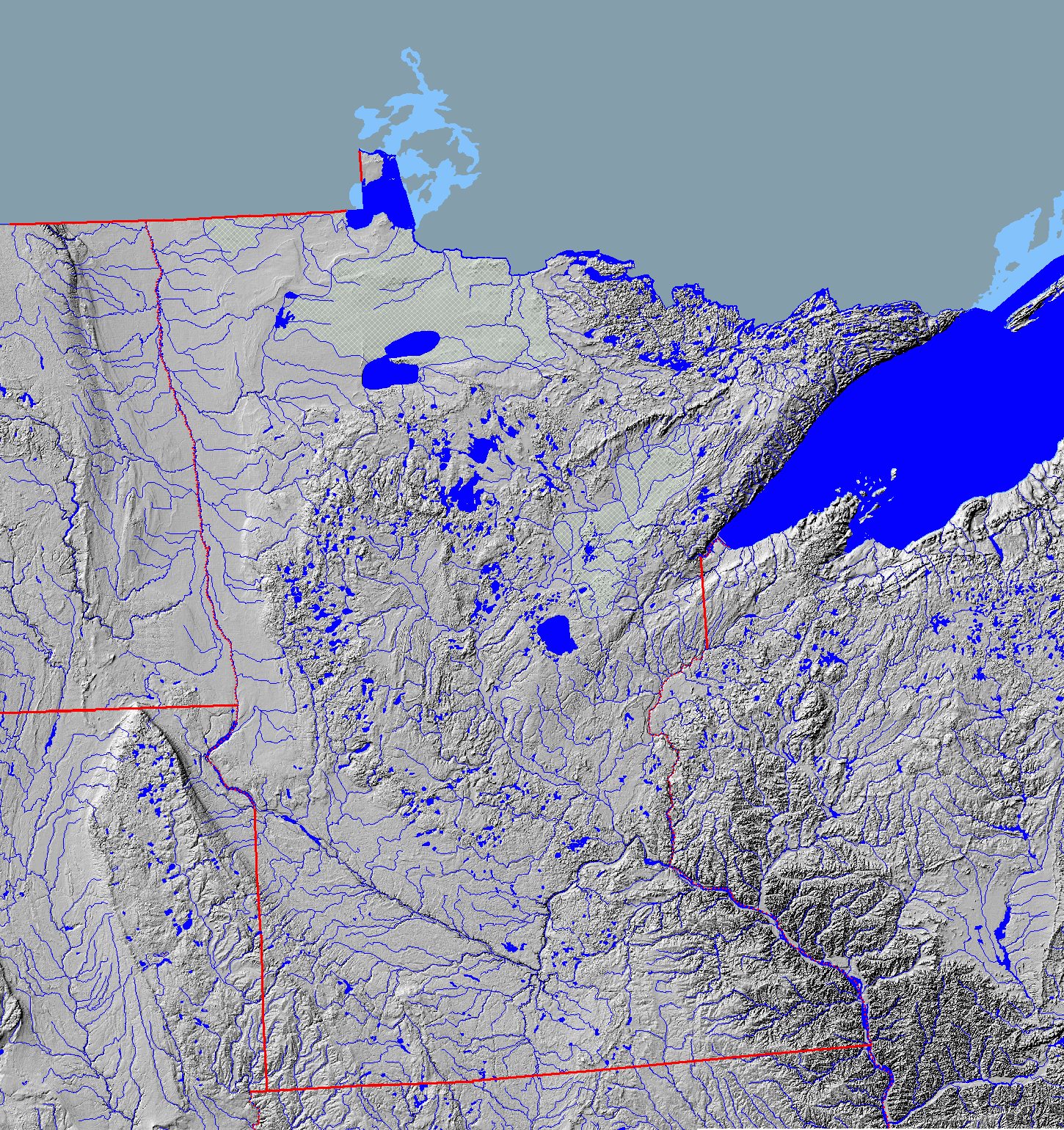 Topographical map of Minnesota in central North America, showing state land and riverine boundaries, shaded relief, and watercourses. Image without borders at Commons at Image:MNTopo.GIF.